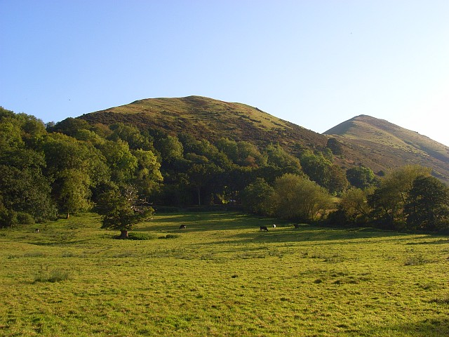 Pastures, Comley Little Caradoc and Caer Caradoc rise to the south.